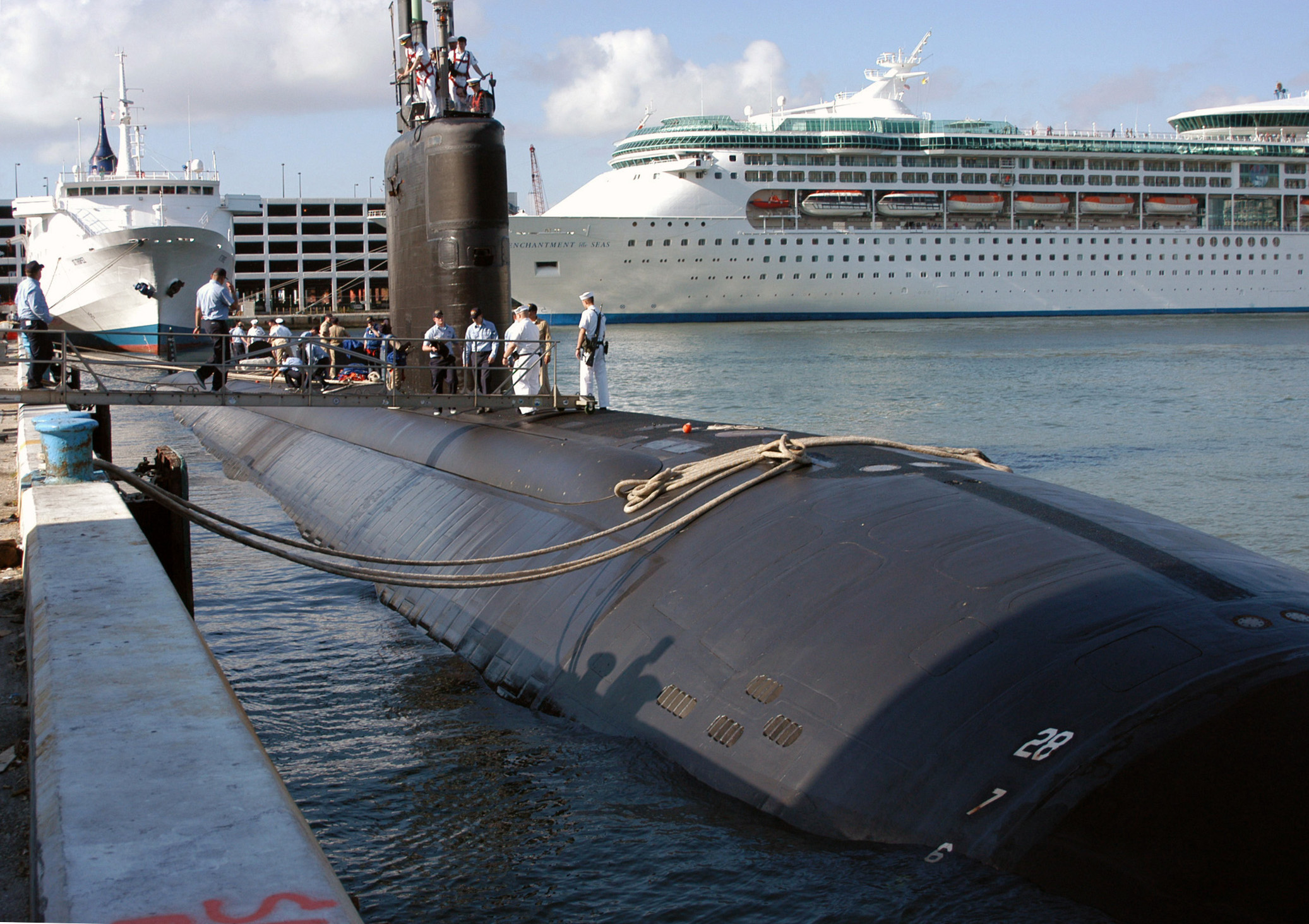 Port Everglades, Fla. (Apr. 26, 2004) - The Los Angeles class attack submarine USS Miami (SSN 755), homeported in Groton, Conn., sits moored to a pier as Sailors prepare to participate in Fleet Week. The Fleet Week celebration is an annual tradition thanking our nation's sea-going personnel for their dedicated service to our country. U.S. Navy photo by Photographer’s Mate 2nd Class Kevin K. Langford. (RELEASED)